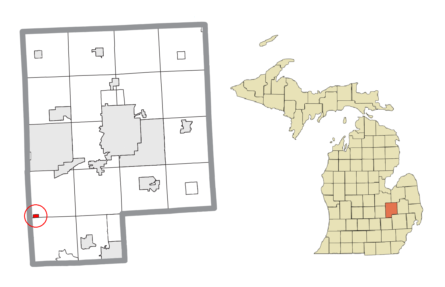 Gaines, MI